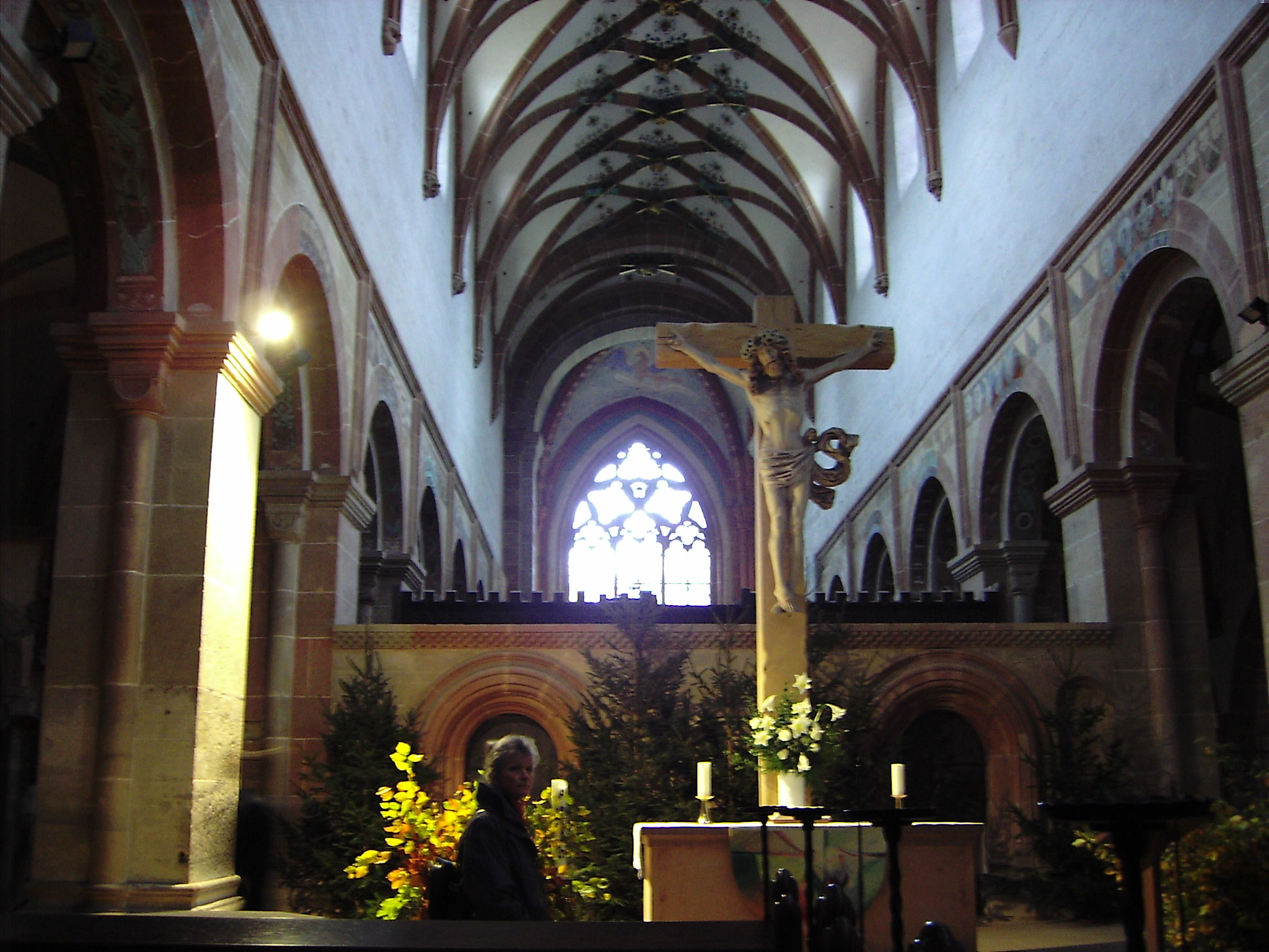 Maulbronn Monastery - Church (interior view)